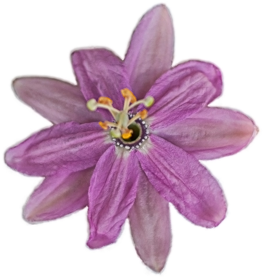 01/01/2012 Passion fruit flower. Taken using a Sigma 30mm lens.